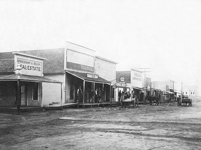 Title: [Street Scene, Byers, Texas] Creator: Parker, R. R. Date: ca. 1910-1920s Part of: George W. Cook Dallas/Texas image collection Series: Series 3: Photographs Series 3, Subseries 3, Postcards Series 3, Subseries 3d, RPPC, Texas Place: Byers, Clay County, Texas Description: This real photographic postcard shows men and women standing on the sidewalk and horses, a carriage, and a wagon on an early street in Texas. Physical Description: 1 photographic print (postcard): gelatin silver; 9 x 14 cm File: a2014_0020_3_3_d_0400_c_byersstreet.jpg Rights: Please cite DeGolyer Library, Southern Methodist University when using this file. A high-resolution version of this file may be obtained for a fee by contacting . For more information and to view the image in high resolution, see